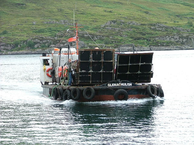 Glenelg Ferry. Approaching Kylerhea slipway. The ferry which holds up to six cars is now community owned and runs in the Summer months only.